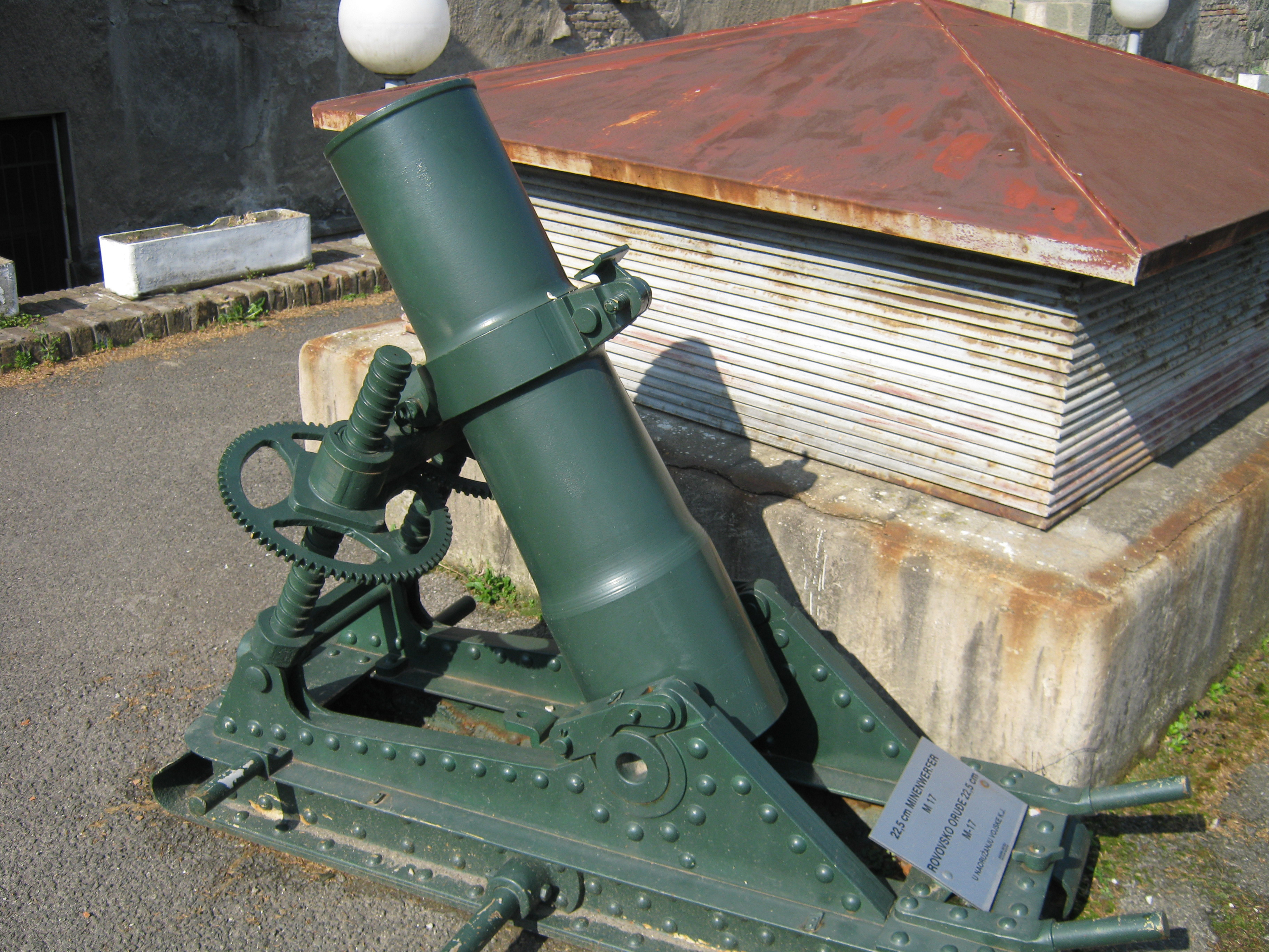 22,5 cm Minenwerfer M.17 use by Yugoslav Royal Army